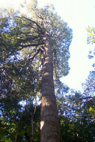 Schizomeria ovata at Fenwicks Scrub, NSW, Australia